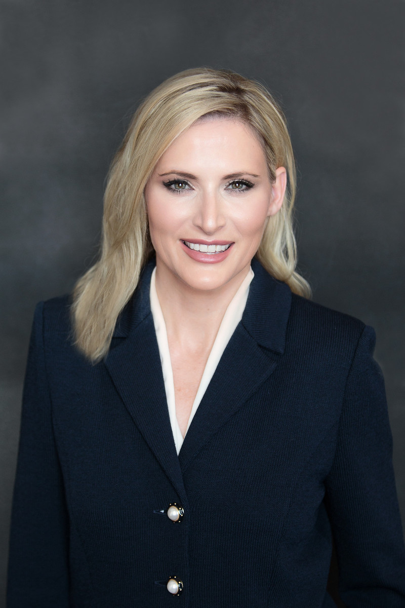 Current Florida Secretary of State Laurel M. Lee